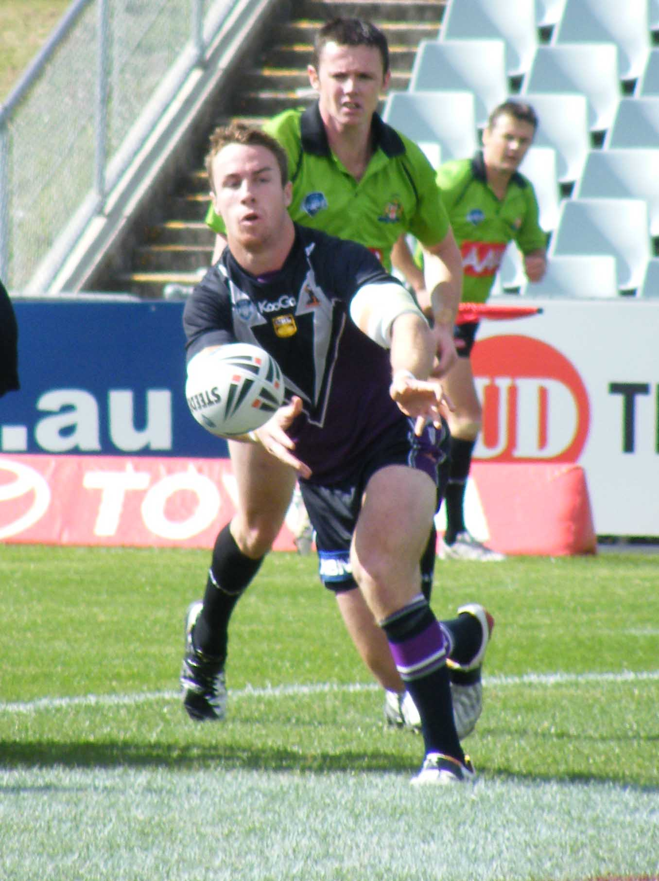 James Maloney of the Central Coast Storm.